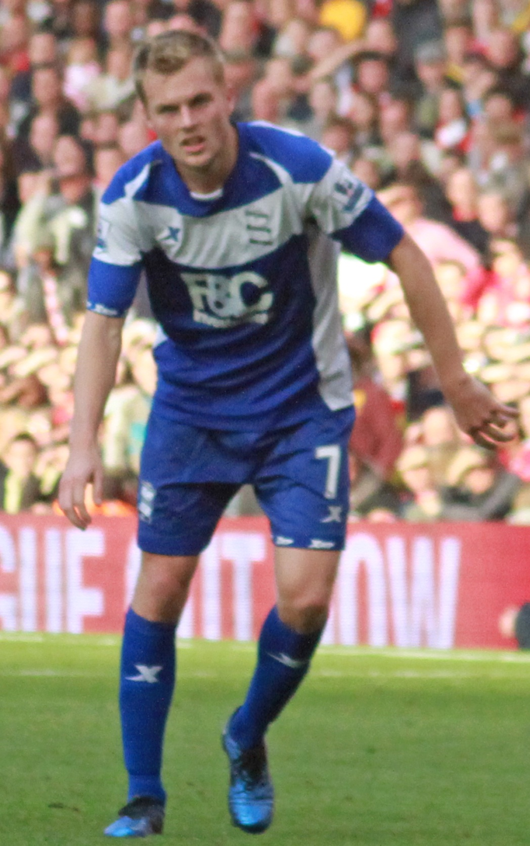 Sebastian Larsson, Arsenal v Birmingham City The Emirates 16 October 2010 (2-1)